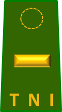 Second Lieutenant rank insignia that used on daily uniforms of Indonesian Army